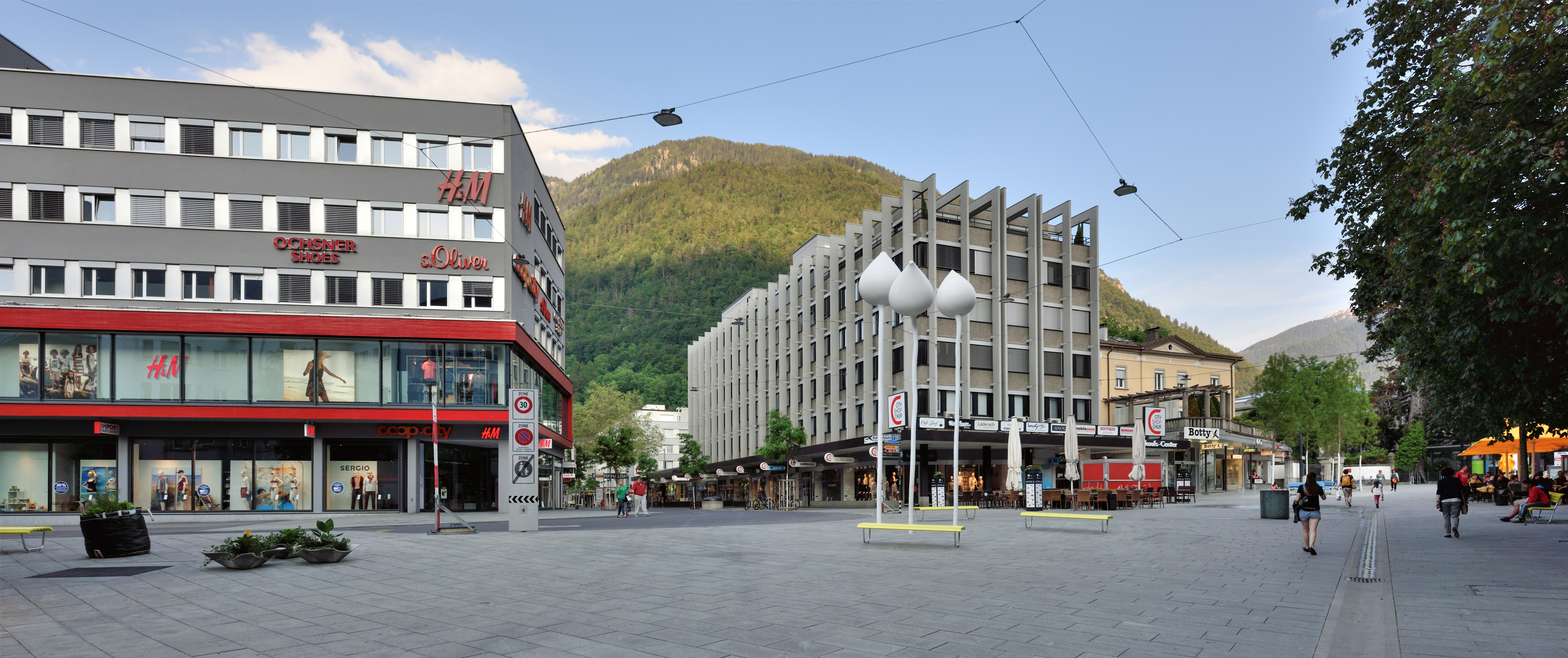 Alexanderplatz in Chur, Switzerland, after the renovation in 2015-2016.